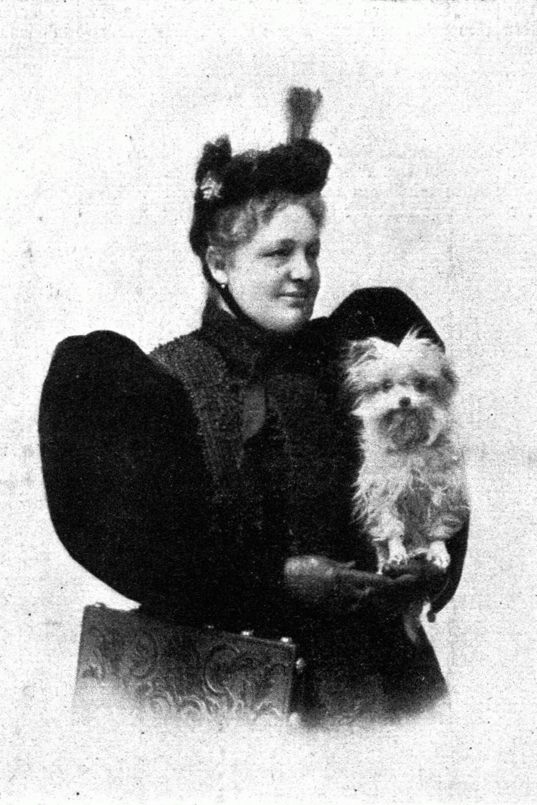 Helene Hartmann (1843-1898), Austrian actress